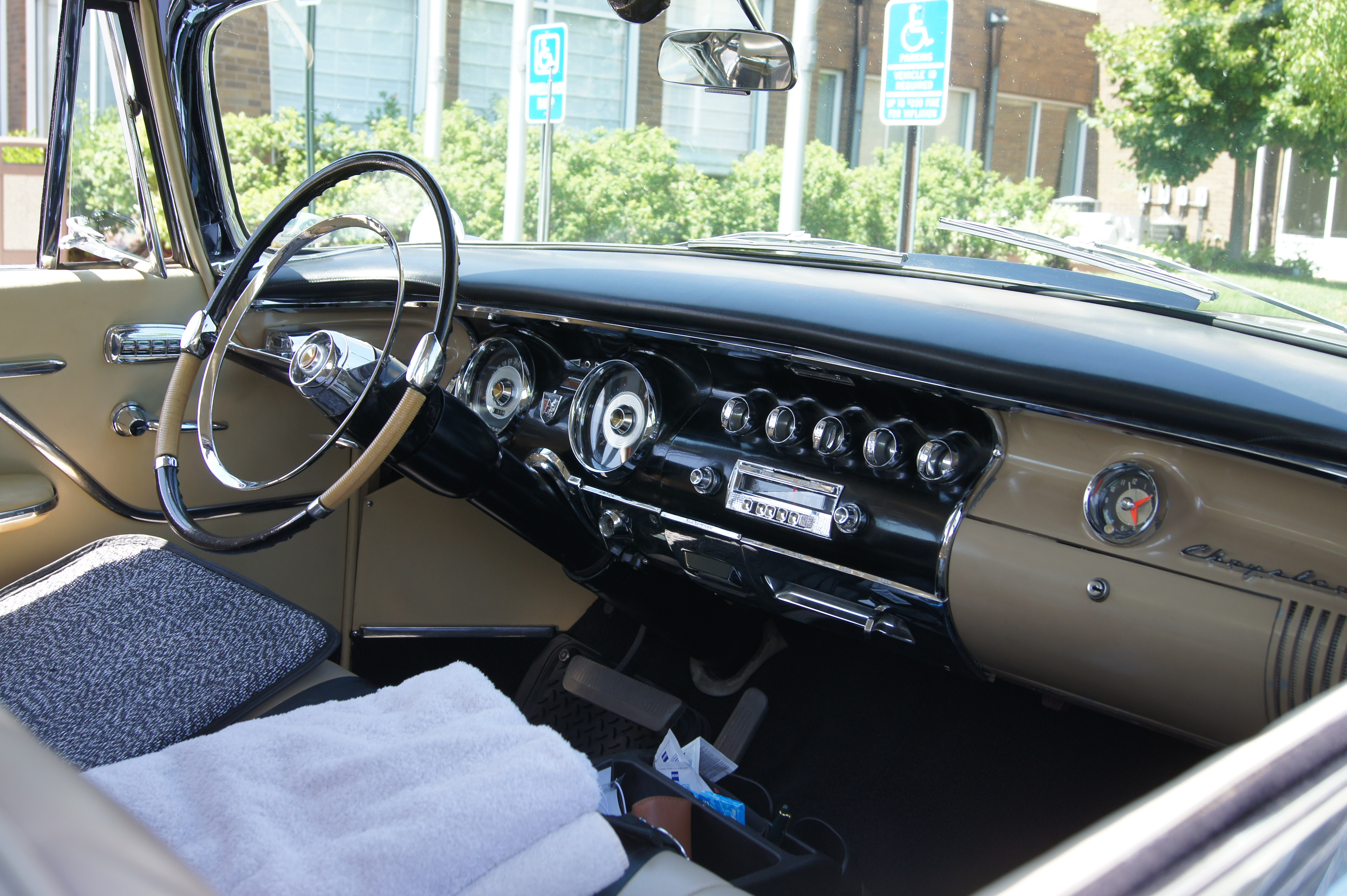 1st Combined Convention 28th Annual National DeSoto Club Convention & 44th Annual Walter P.Chrysler Club Convention July 17 - 21, 2013 Lake Elmo, Minnesota Click link below for more car pictures